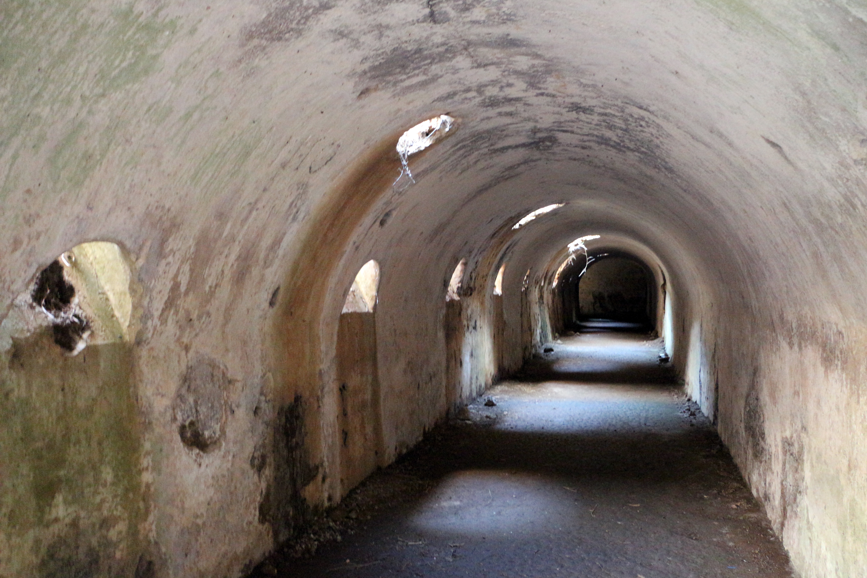 Egnazia